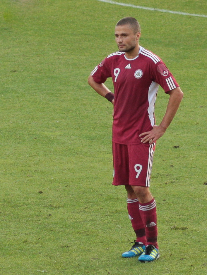 Māris Verpakovskis, Latvian football player